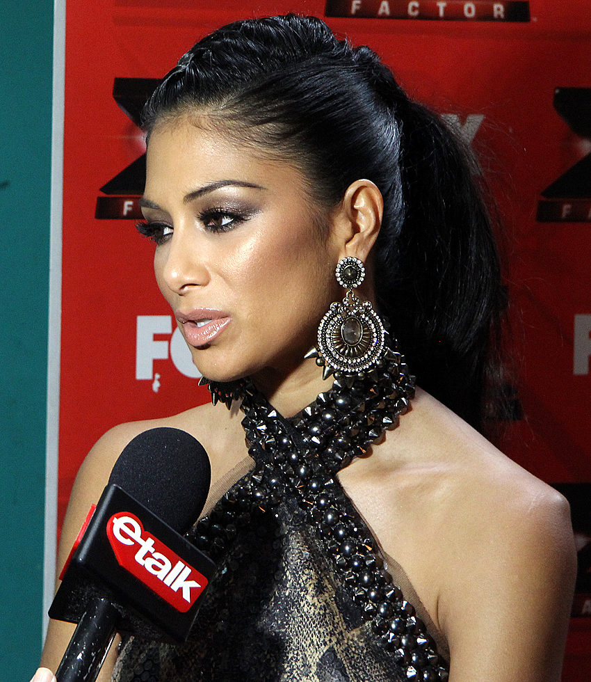 Nicole Scherzinger at the The X Factor USA Backstage 2011.